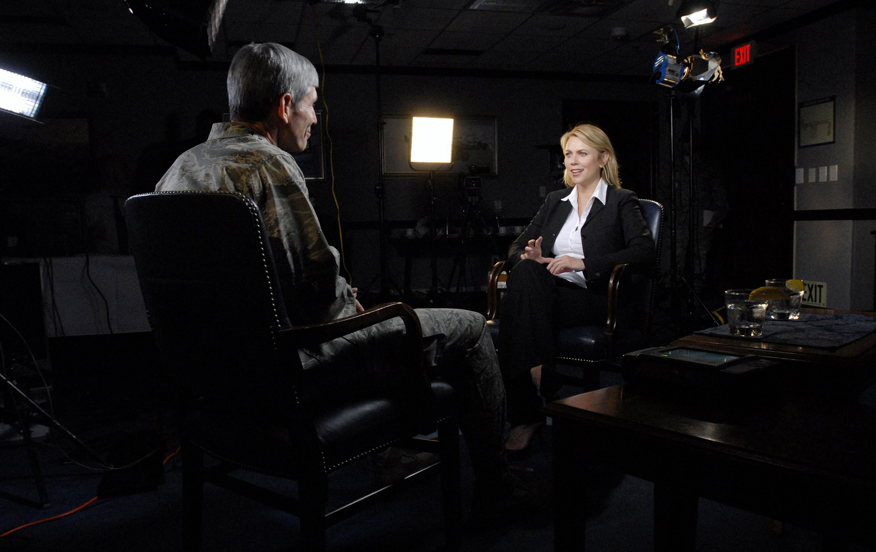 Air Force Chief of Staff Gen. Norton Schwartz answers questions during an interview April 15, 2009 with Lara Logan from "60 Minutes." During the discussion, General Schwartz spoke about the capabilities of the unmanned aircraft system and its significant impact to the mission. The interview is part of a broadcast that aired May 10, 2009.